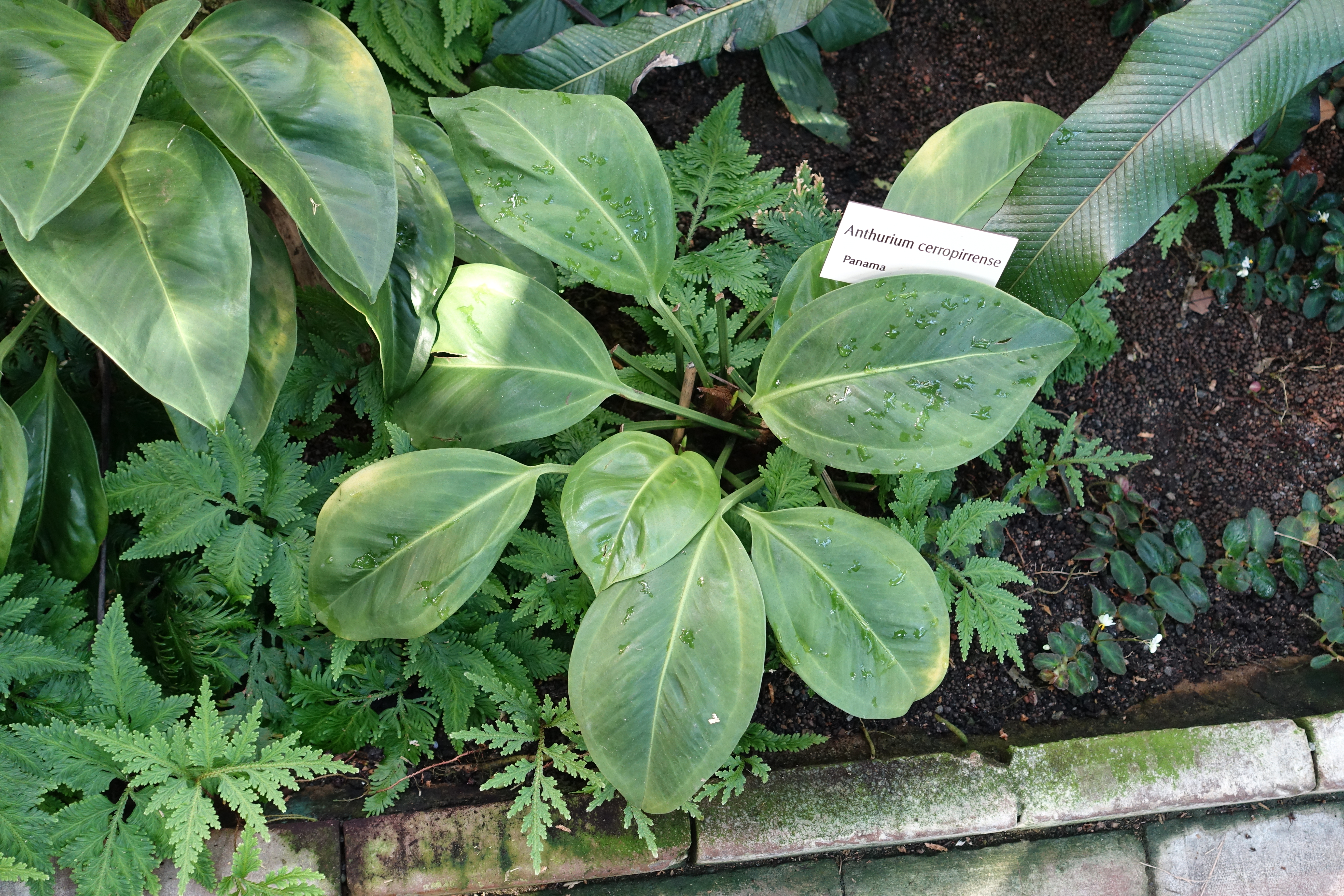 Botanical specimen in the Bergianska trädgården - Stockholm, Sweden.